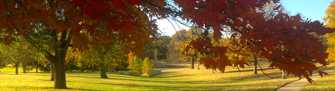 Fall view of College Hill Park, Wichita, Kansas